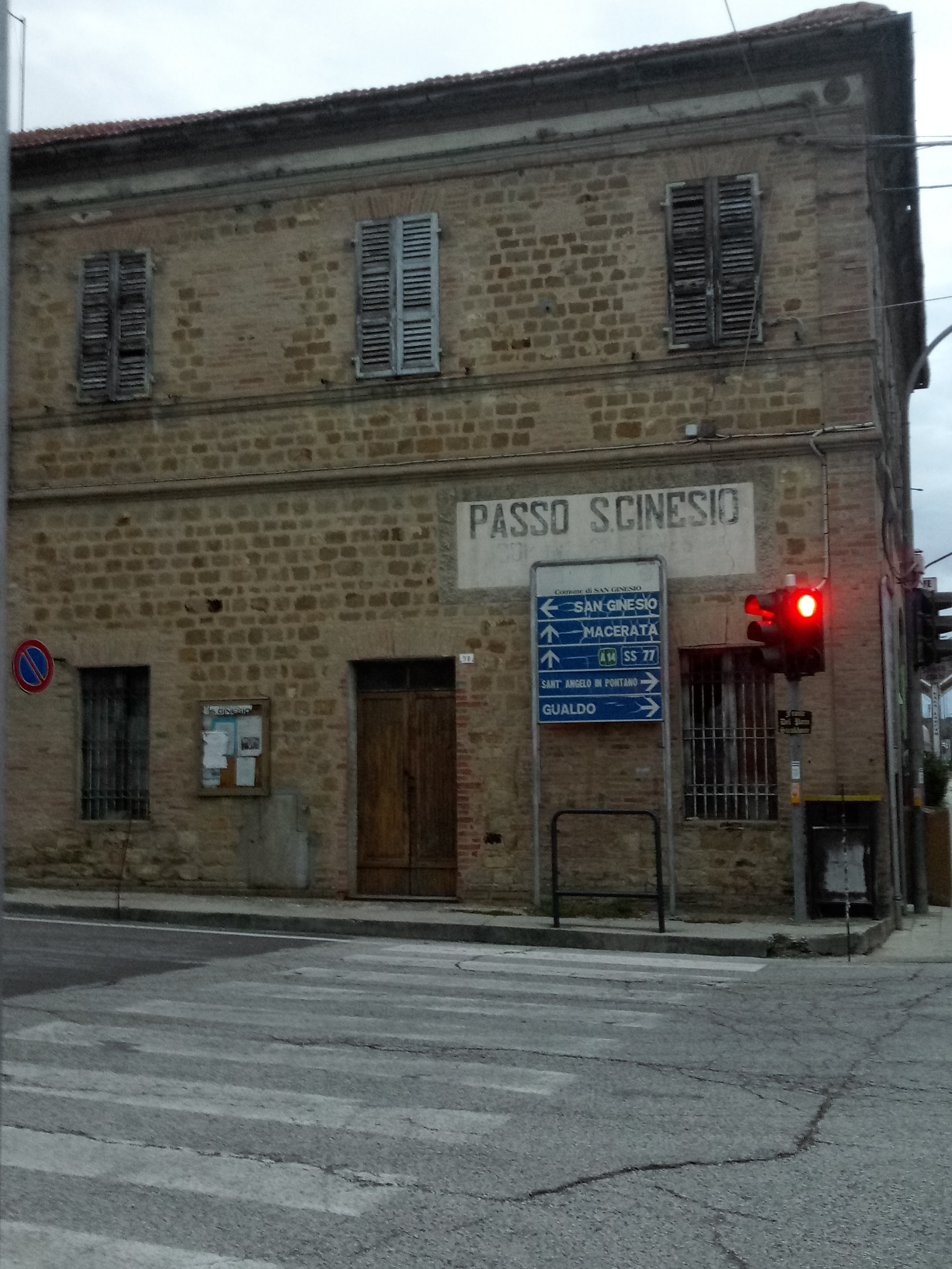 Old office of the SASP